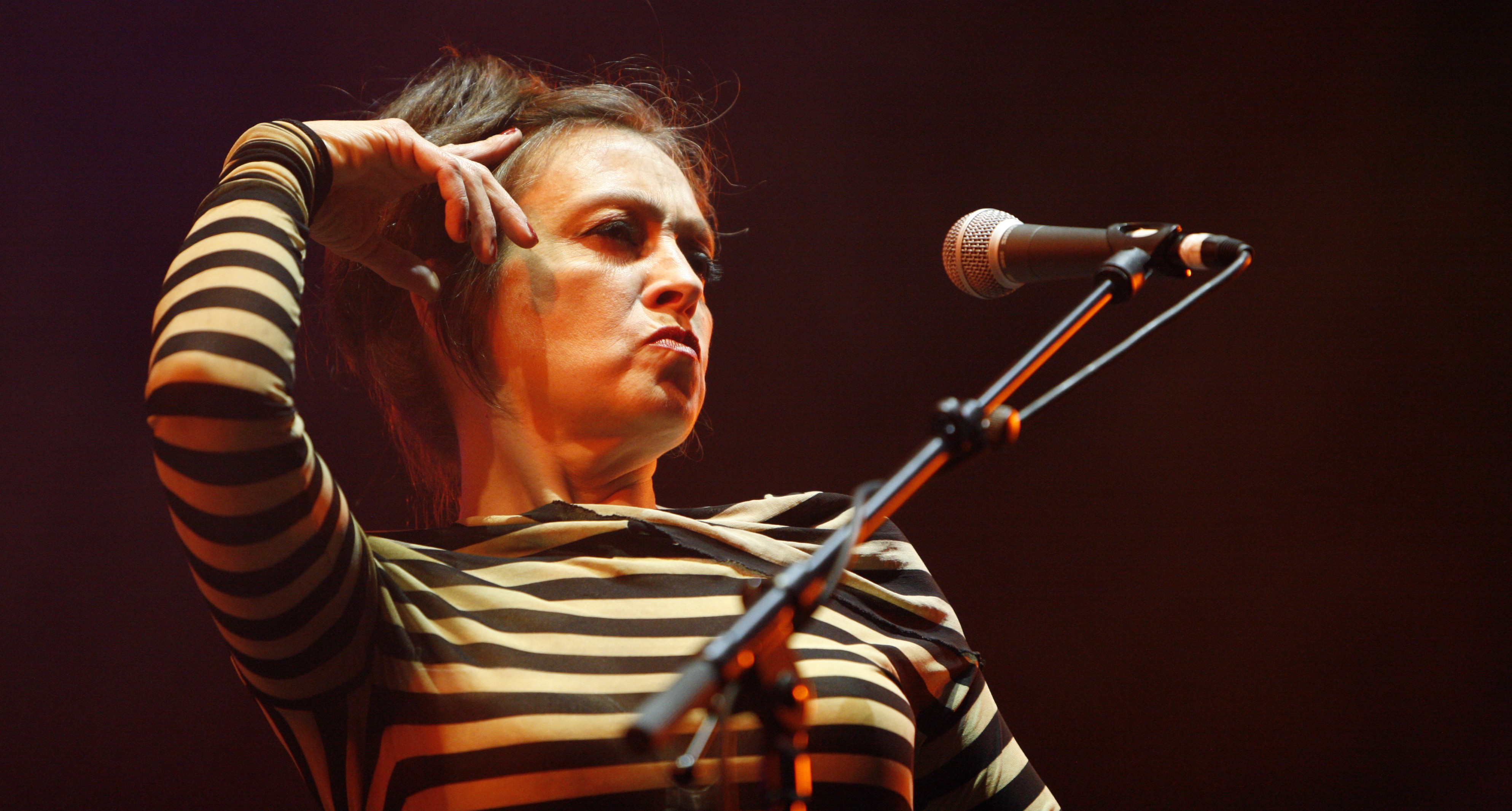 Les Rita Mitsouko at the Eurockéennes of 2007.